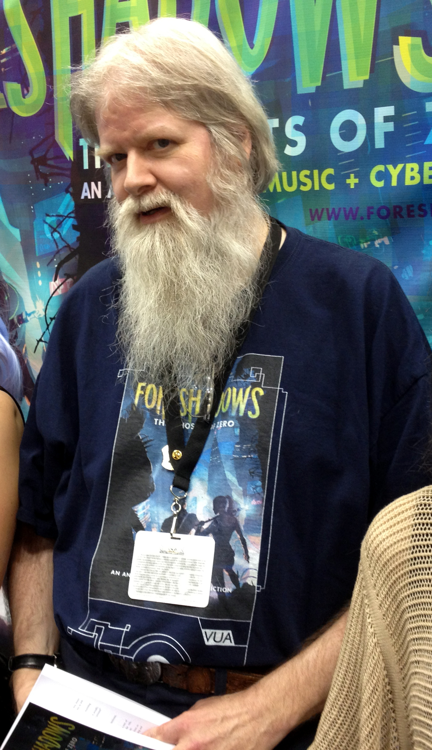 Ed Greenwood at a booth at Gen Con Indy in 2012. Photo by John LaSala. To be used to as a more updated photo in the entry for Ed Greenwood.